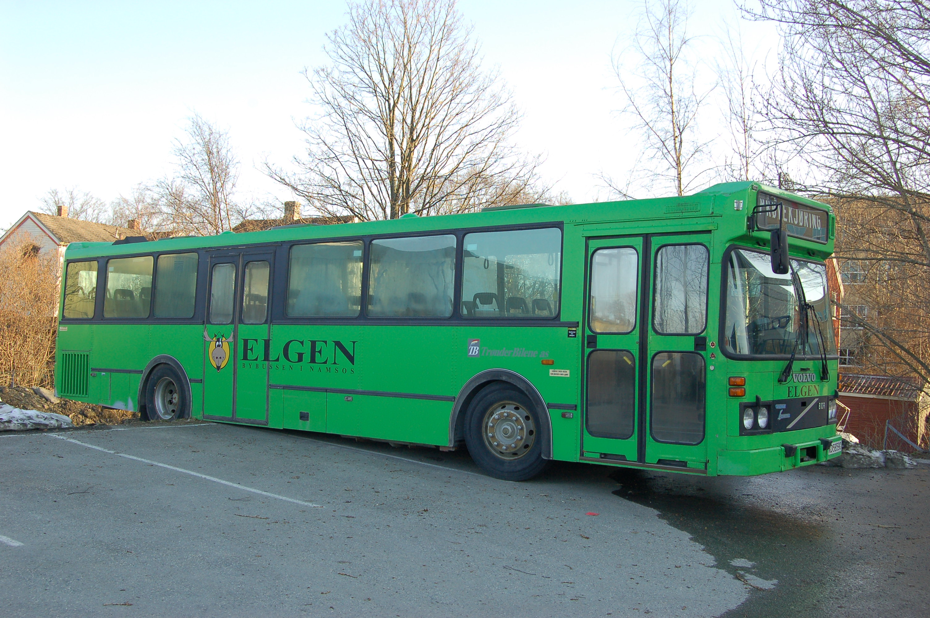 A bus operated by TrønderBilene as part of the Elgen bus service in Namsos, Norway.